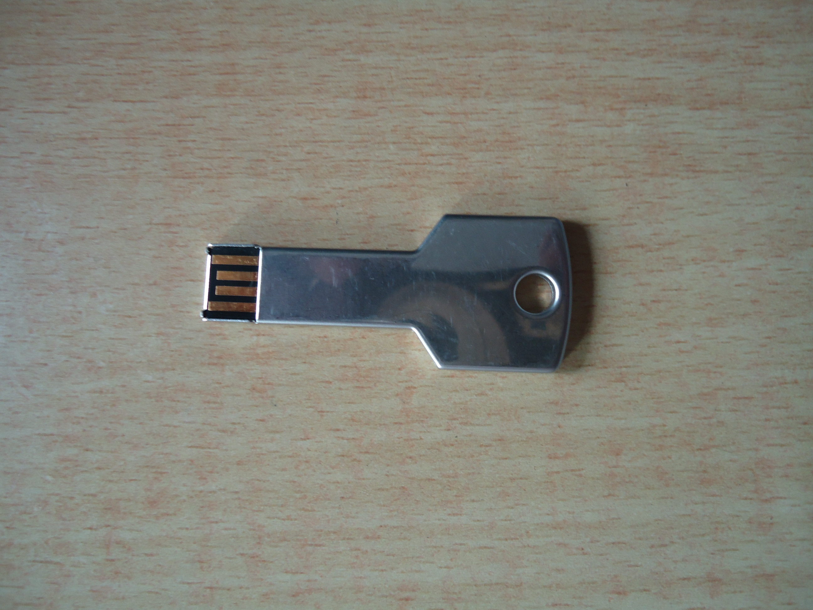 Pendrive Shape of key